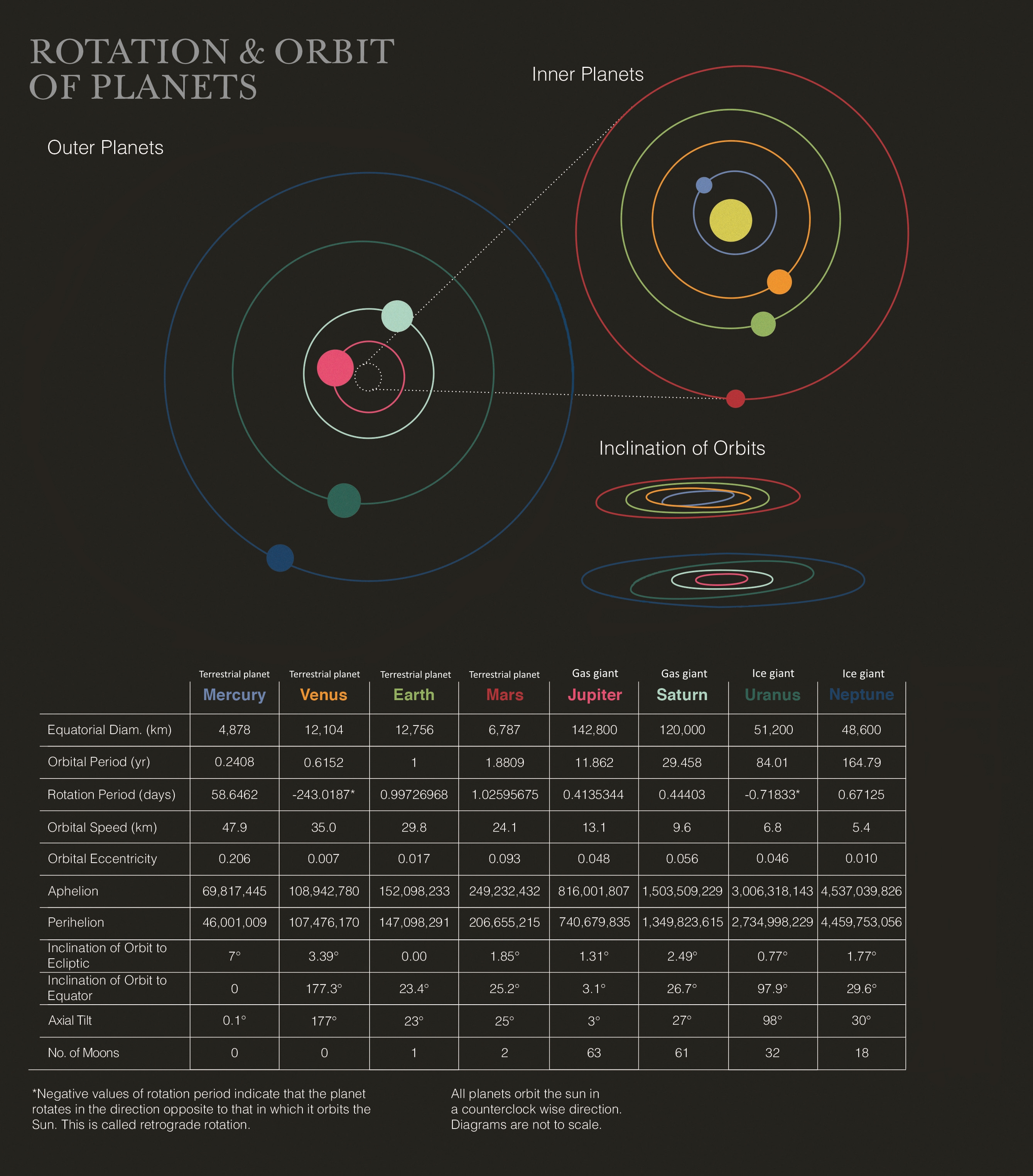 Planetary Orbits